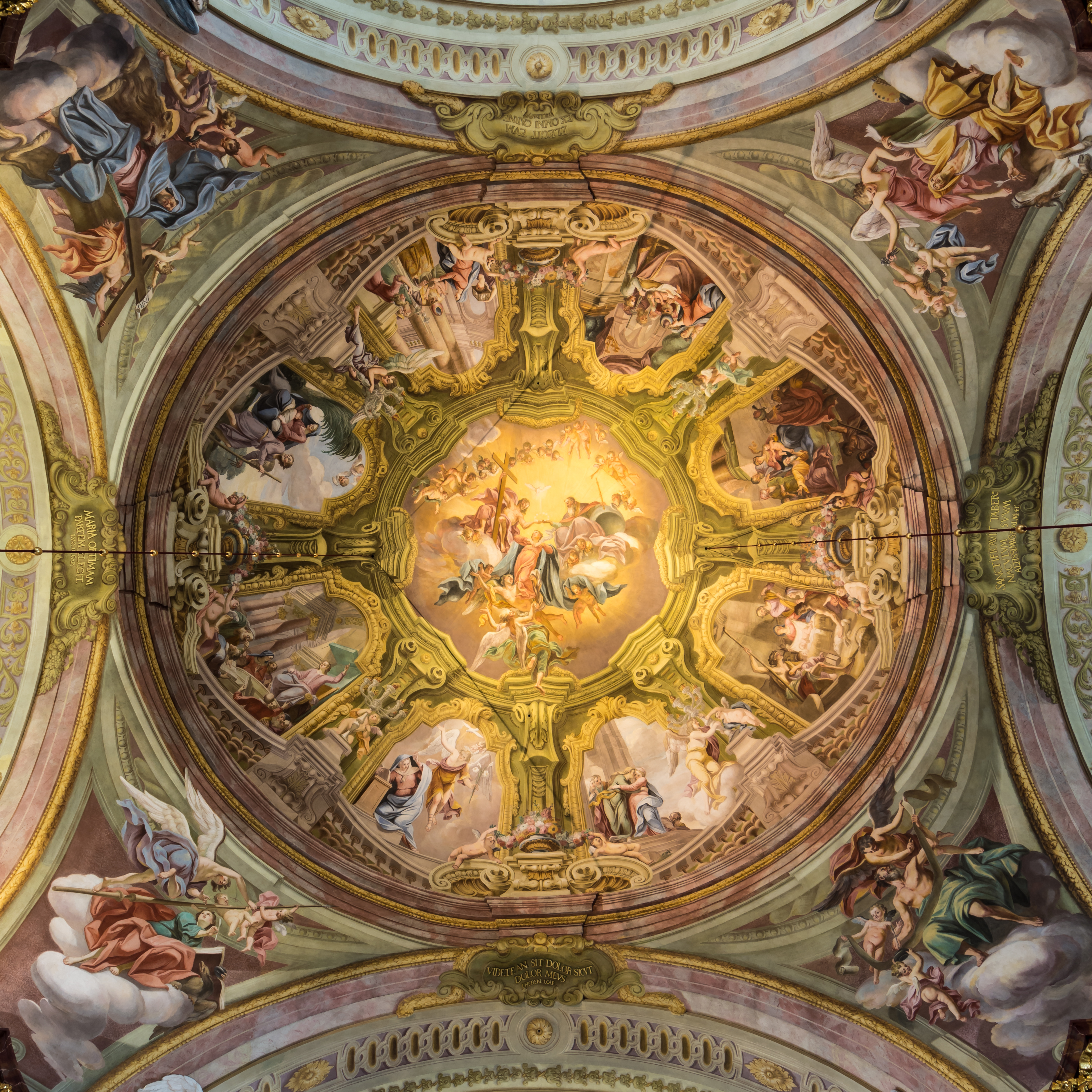 Fresco in the dome of Maria Taferl Basilica (Lower Austria) by Antonio Beduzzi (1714-1718): Life and assumption of Mary